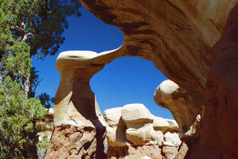 Metate Arch in the Devils Garden area of the Grand Staircase-Escalante National Monument, Utah, USA.